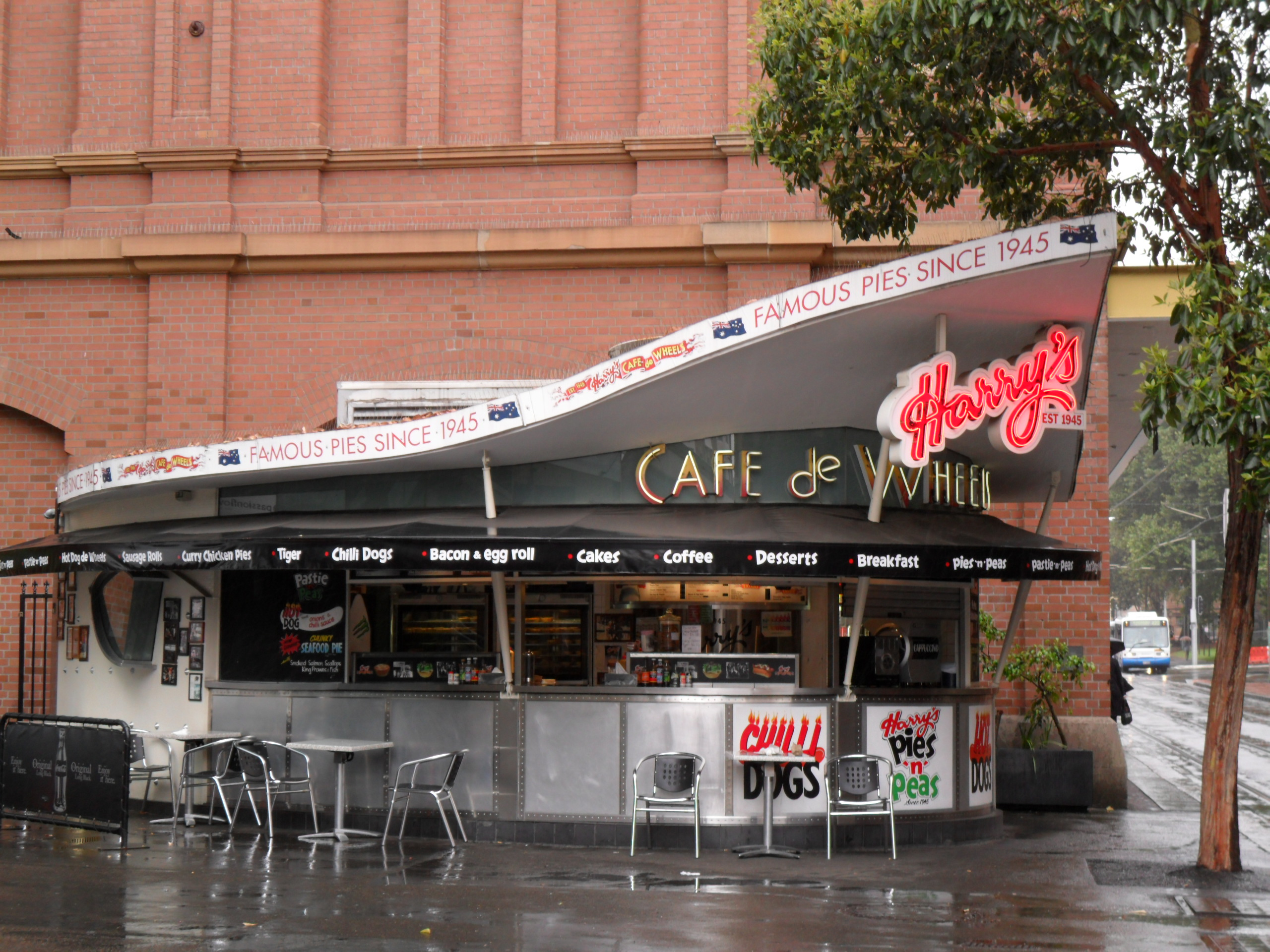 Harry's Cafe de Wheels, Campbell St. Sydney